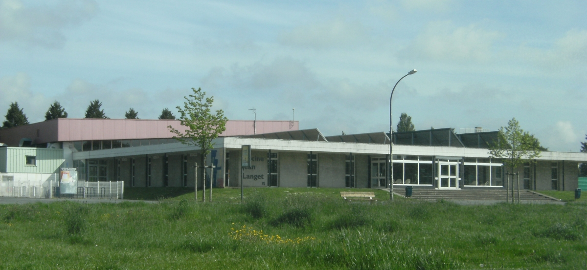 Municipal pool Rochefort